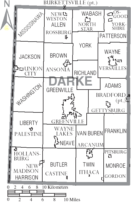 Map of Darke County, Ohio, United States with township and municipal boundaries